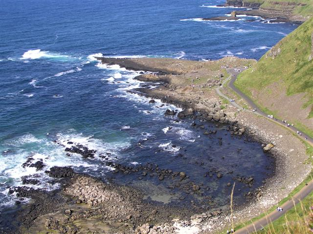 Giant's Causeway. Zooming in, the people on the ground look like flies.